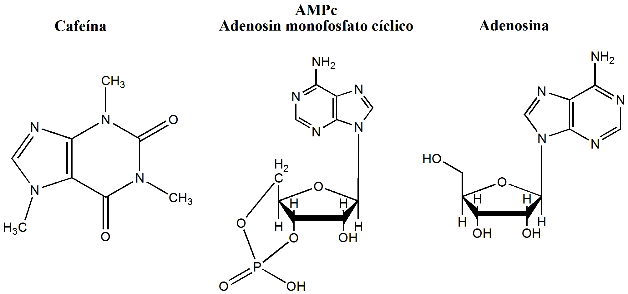 Caffeine, cyclic AMP and Adenosine